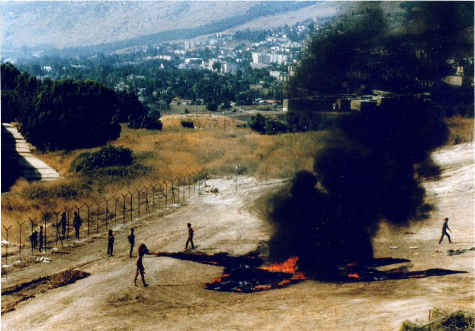 Joshua Neustein, "Still Life On The Border", 1983